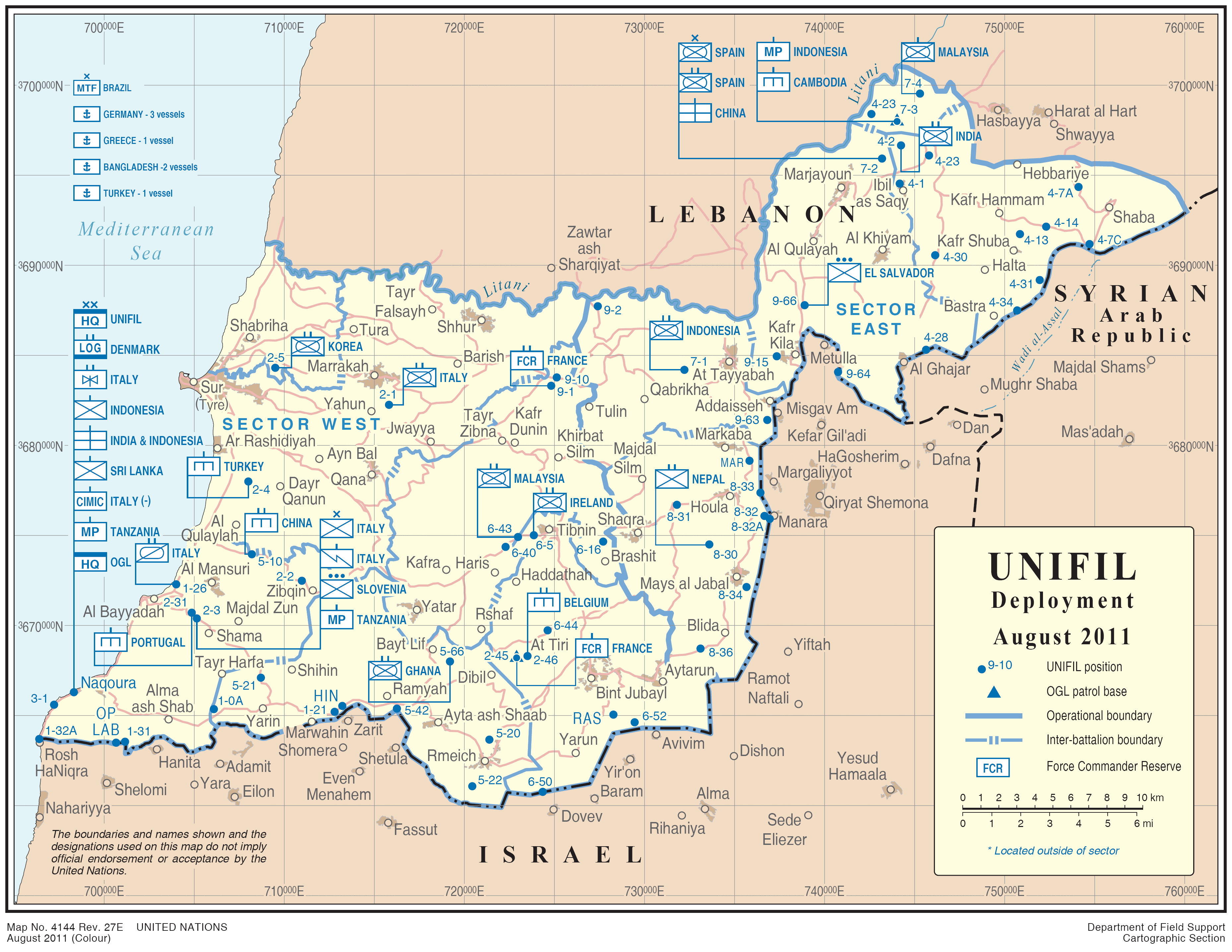 United Nations Interim Force in Lebanon (UNIFIL) deployment, August 2011